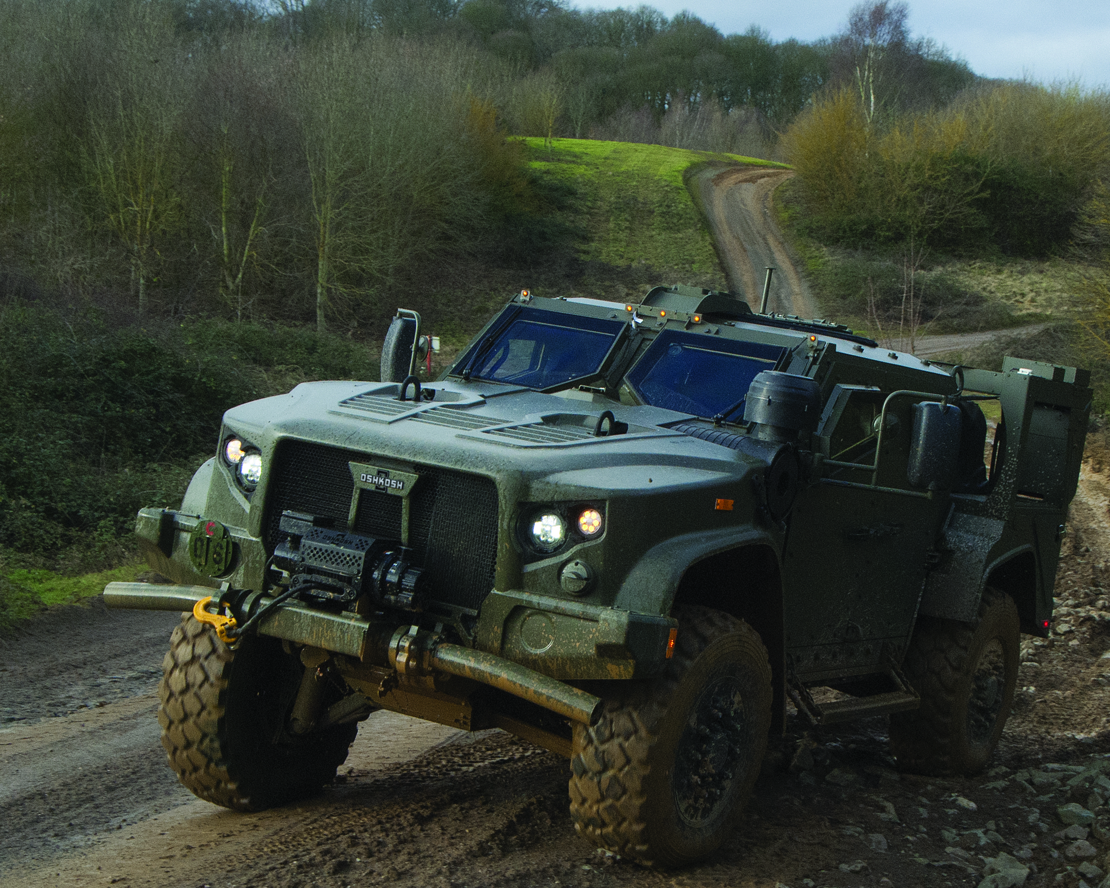 Oshkosh L-ATV in British Army green during a UK demonstration’